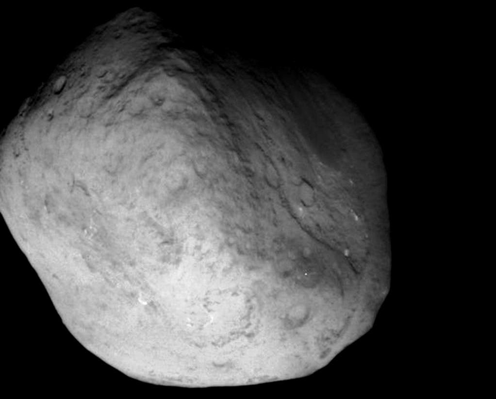 Comet Tempel 1 as Seen by NASA's Stardust. NASA's Stardust-NExT mission took this image of comet Tempel 1 at 8:39 p.m. PST (11:39 p.m. EST) on Feb 14, 2011. The comet was first visited by NASA's Deep Impact mission in 2005.